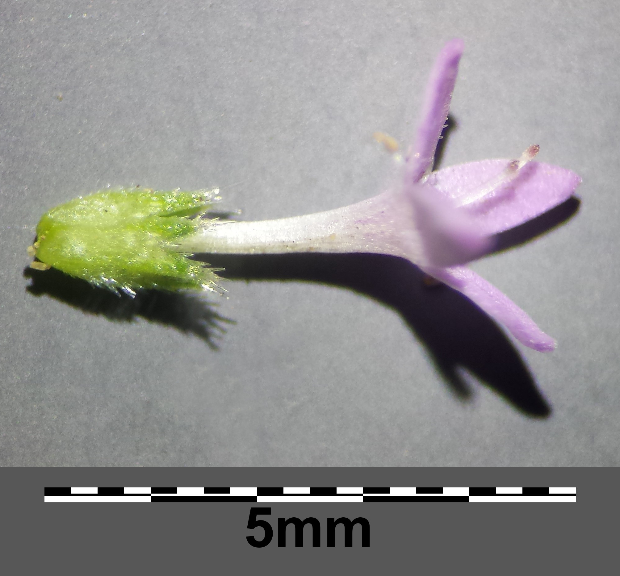 Flower Taxonym: Sherardia arvensis ss Fischer et al. EfÖLS 2008 ISBN 978-3-85474-187-9 Location: nearby Riebeis, Rappottenstein, district Zwettl, Lower Austria - ca. 775 m a.s.l. Habitat: field